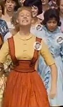 Trudi Ames as Ursula in Bye Bye Birdie (1963), from a screenshot for the film's trailer. Trailers from before 1964 are in the public domain.